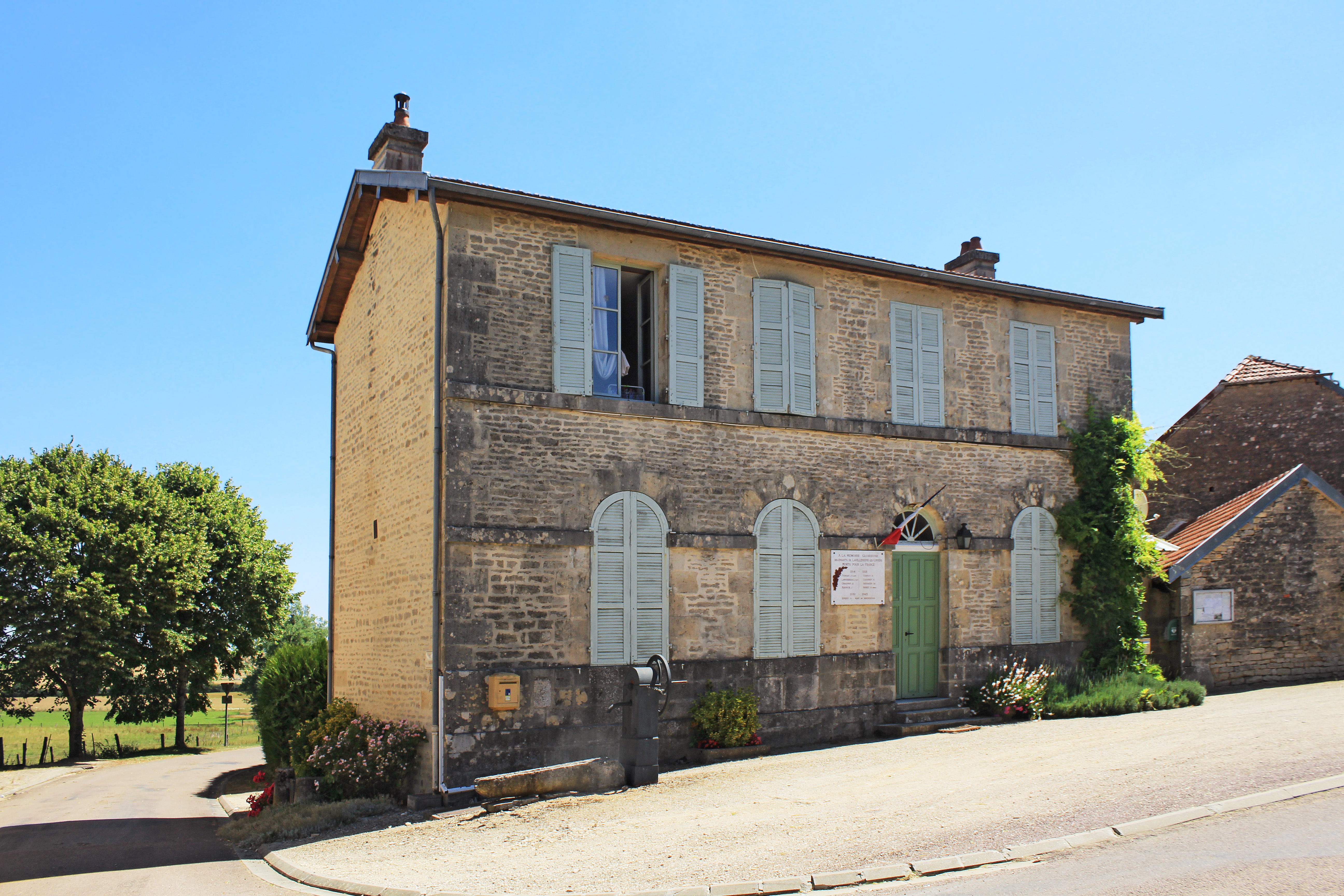 Towh hall of la Villeneuve-les-Convers